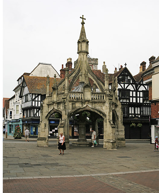 Poultry Cross, Salisbury. Built in the 15th century this was originally a shelter for market traders. It is now separated from the Market Place by the buildings seen behind it. The elaborate roof was added in 1852.